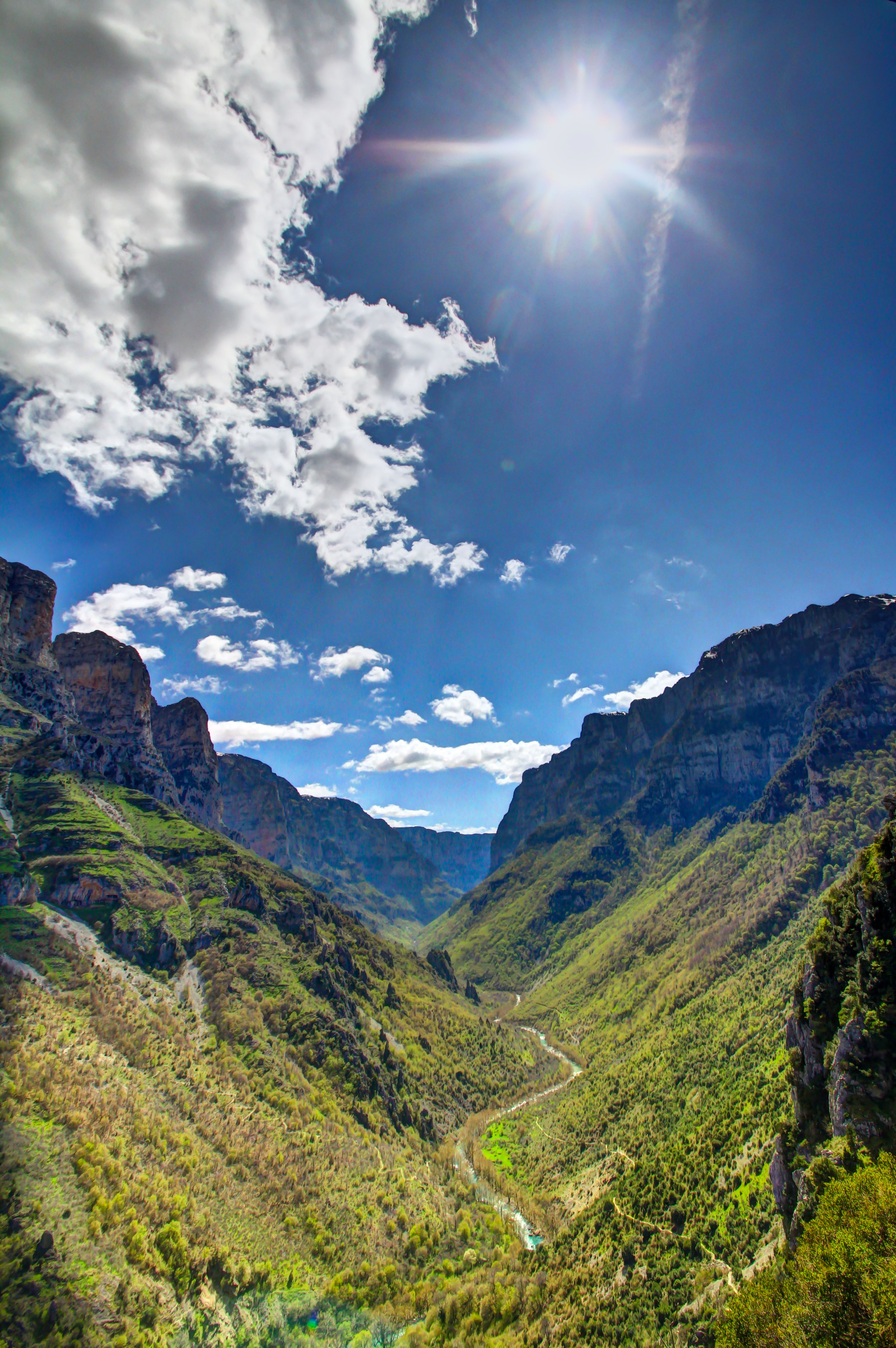 This is a photography of Natura 2000 protected area with ID GR2130001